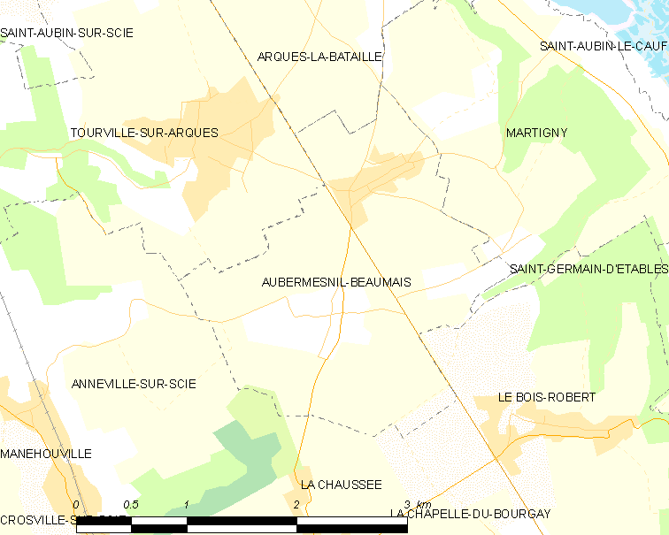 Map of French municipality Aubermesnil-Beaumais